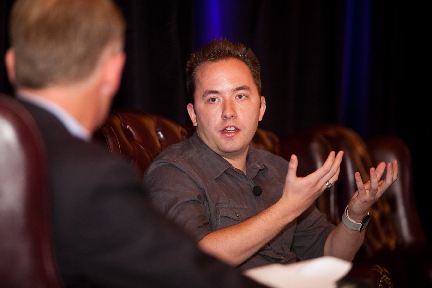 Drew Houston (Dropbox)